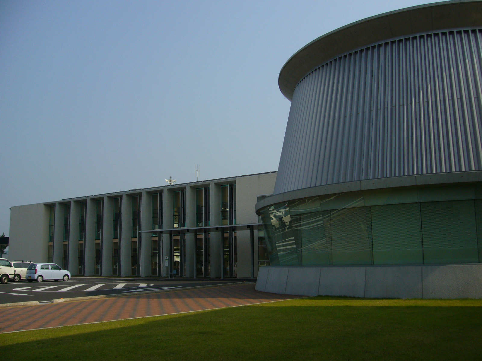 tonosyo-town-hall,chiba-pref,japan